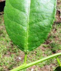 Leaf of Spirostachys africana